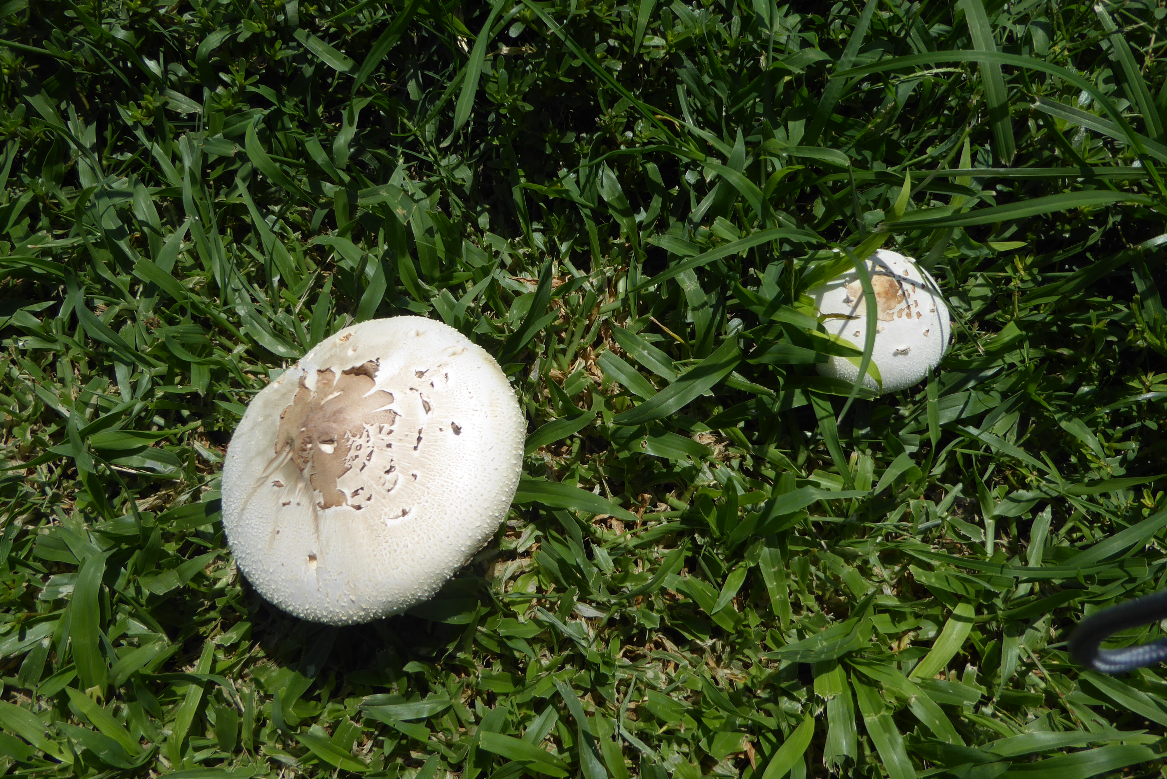 Edith Wolfson Park